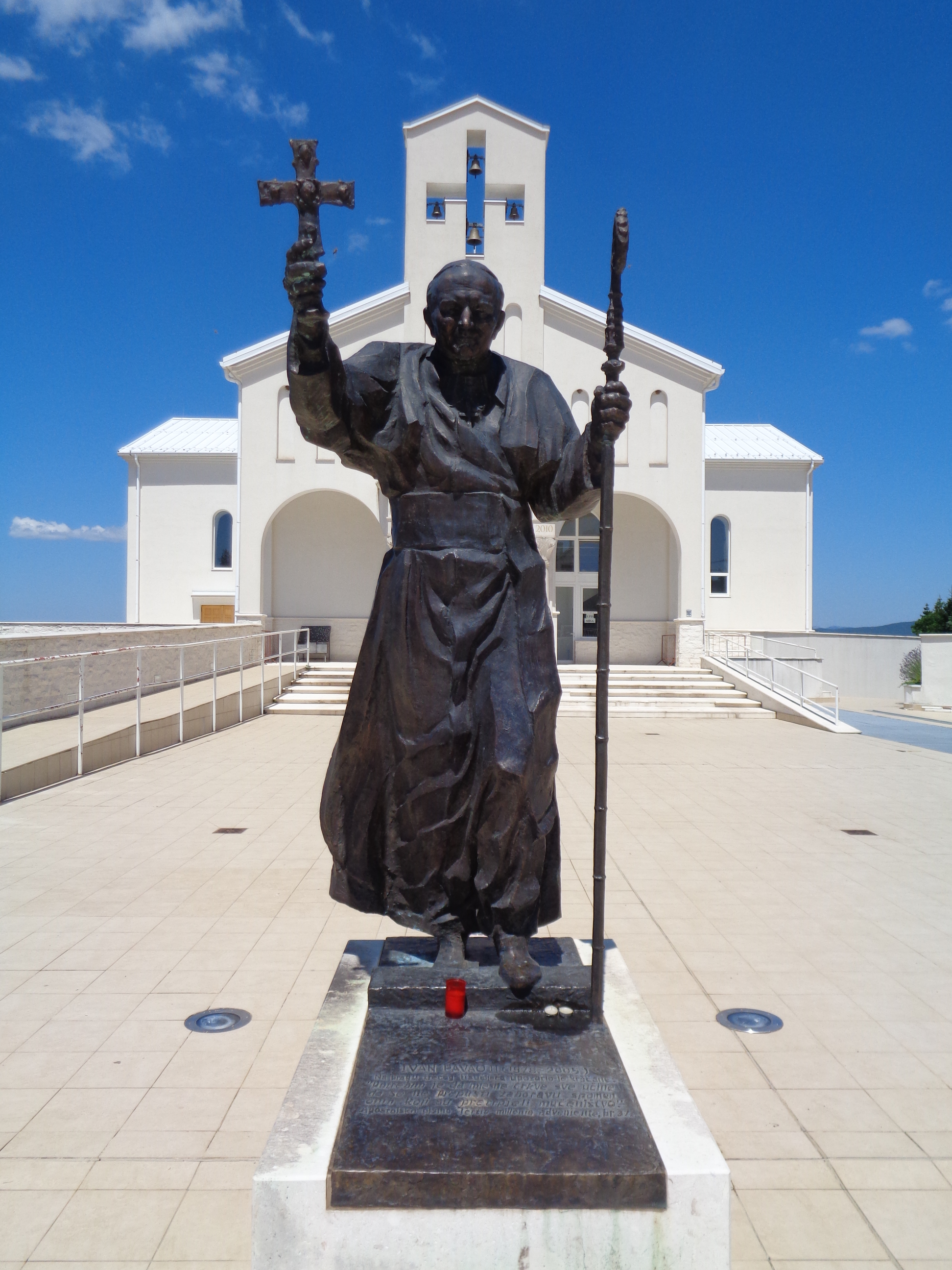 The statue of Pope St. John Paul II in front of the Church of Croatian Martyrs in Udbina, Lika-Senj County, Croatia